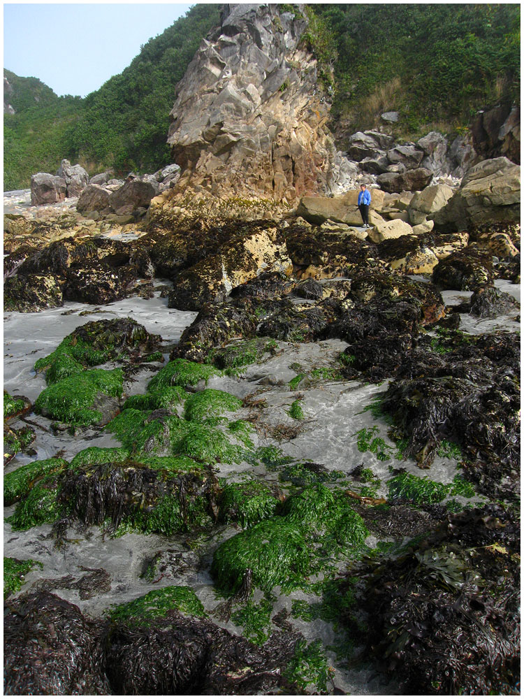 Tidelands at Harris Beach State Park, north of the town of Brookings, in the US state of Oregon.